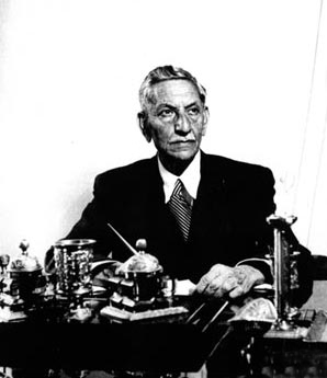 Source is from Media of pre-1970 Iran